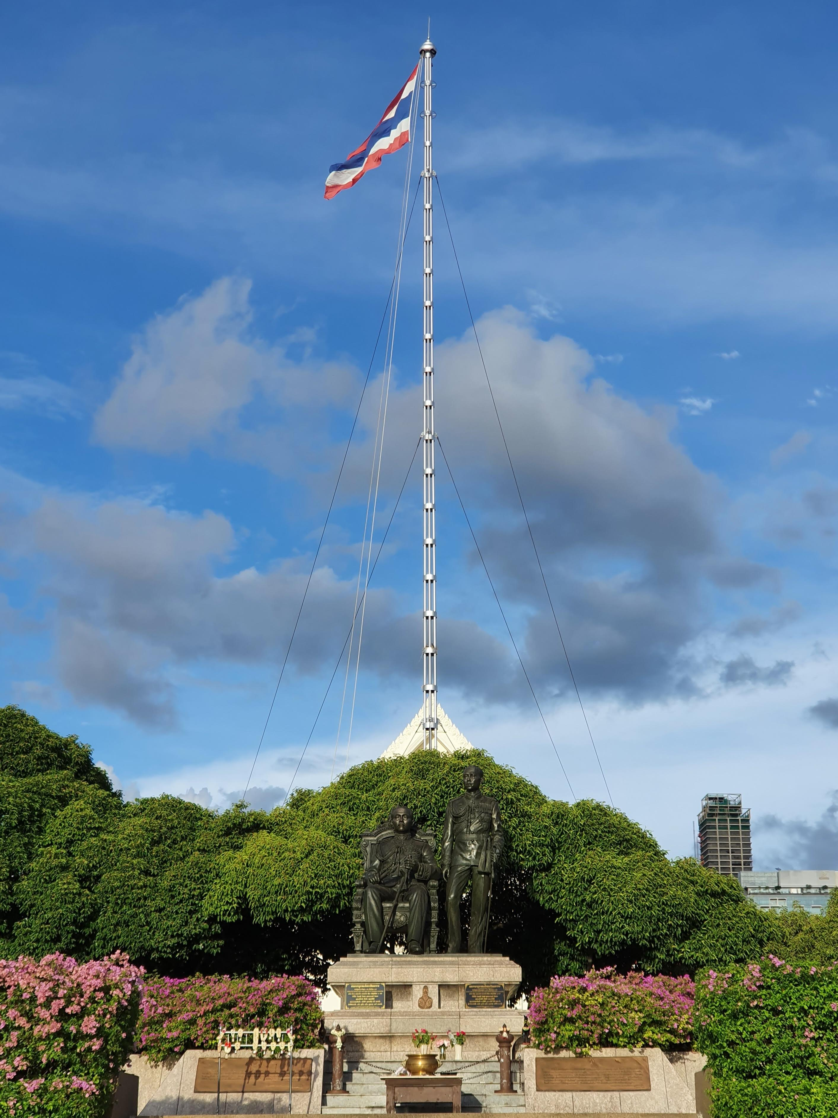 This picture was taken before 6 o'clock in the afternoon from center of rugby field to describe the meaning of the university campus landscape.